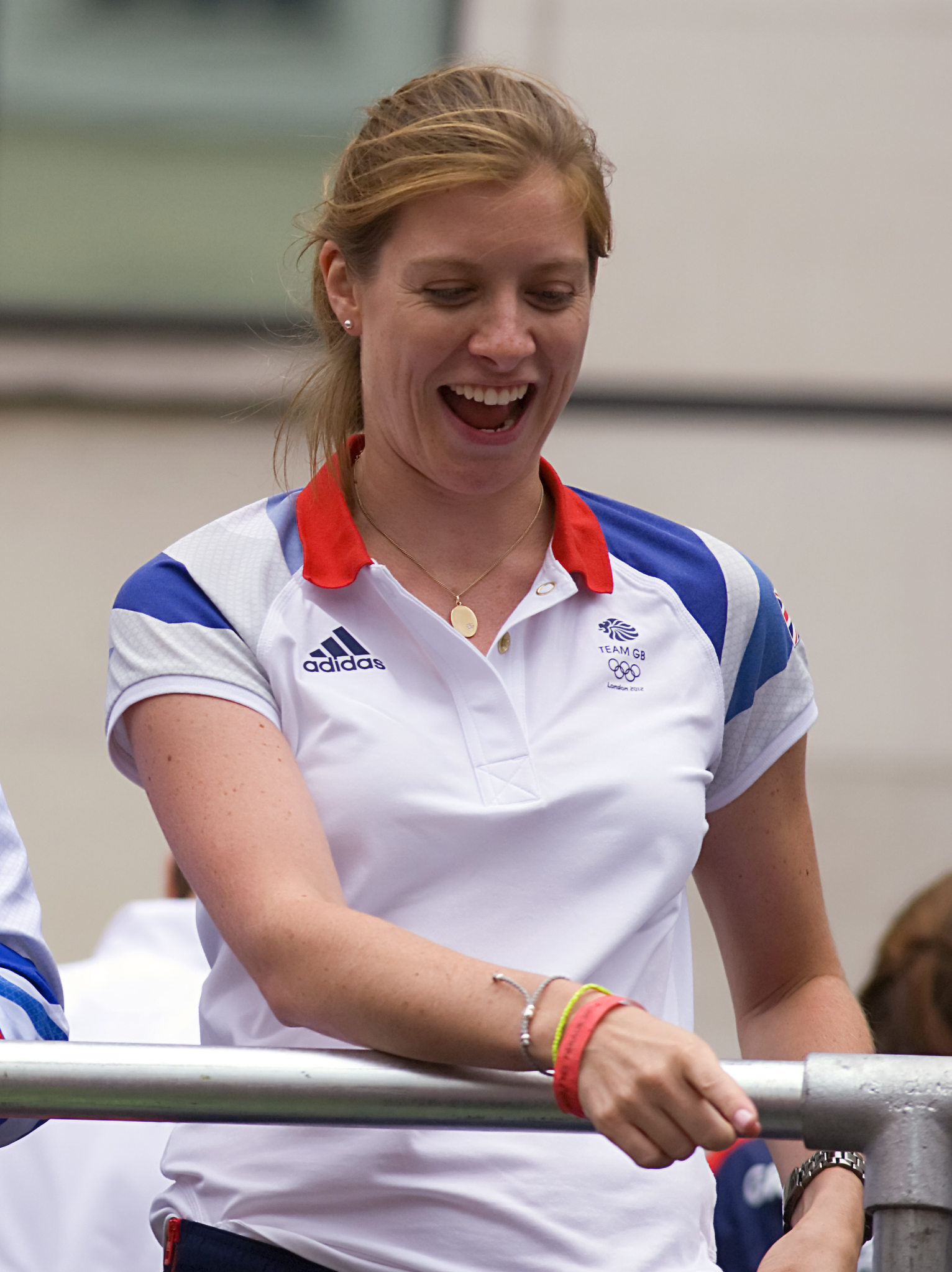 London 2012 Olympic & Paralympic Games Victory Parade, 10th September